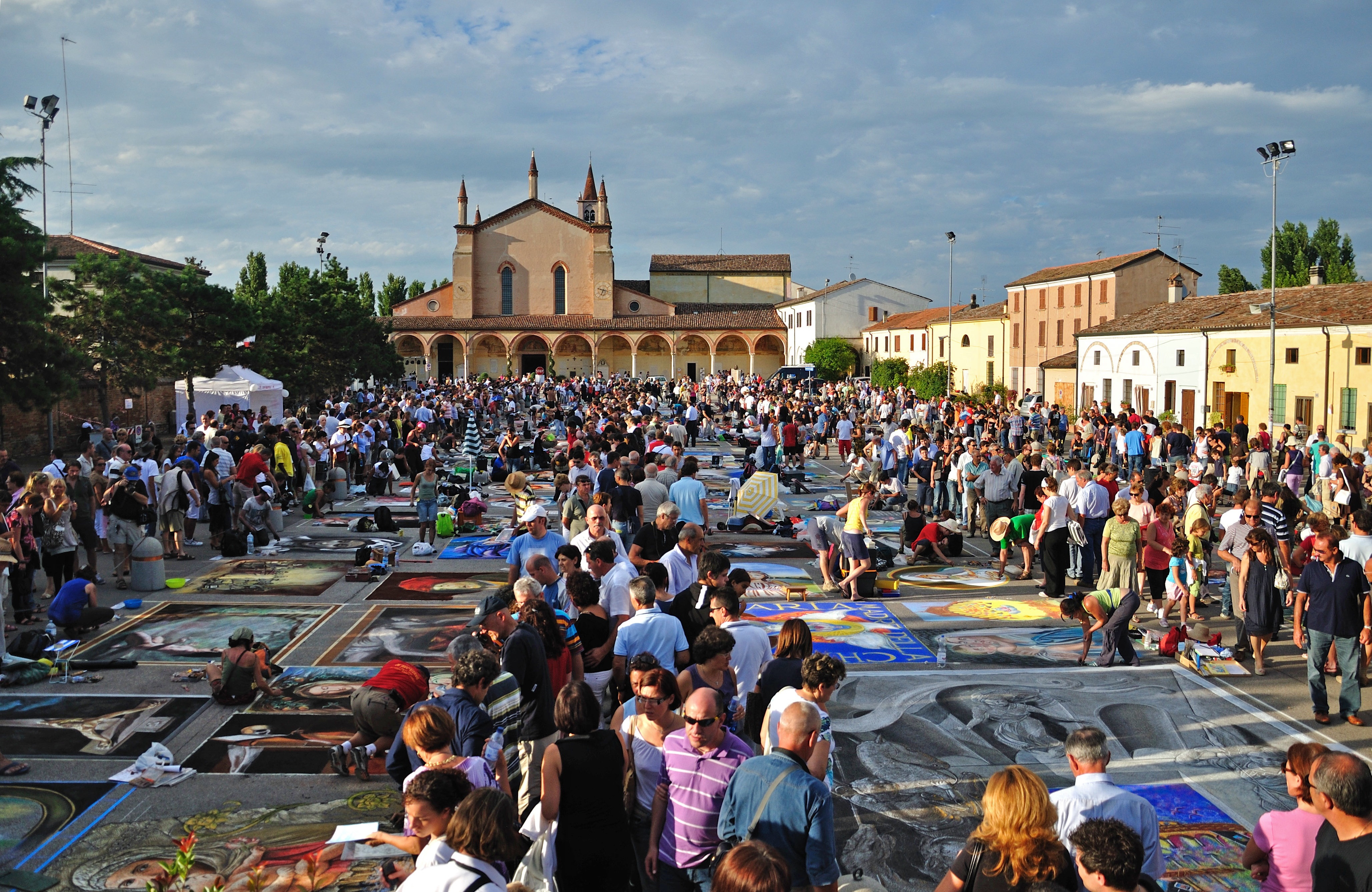 Madonnari alle Grazie di Curtatone